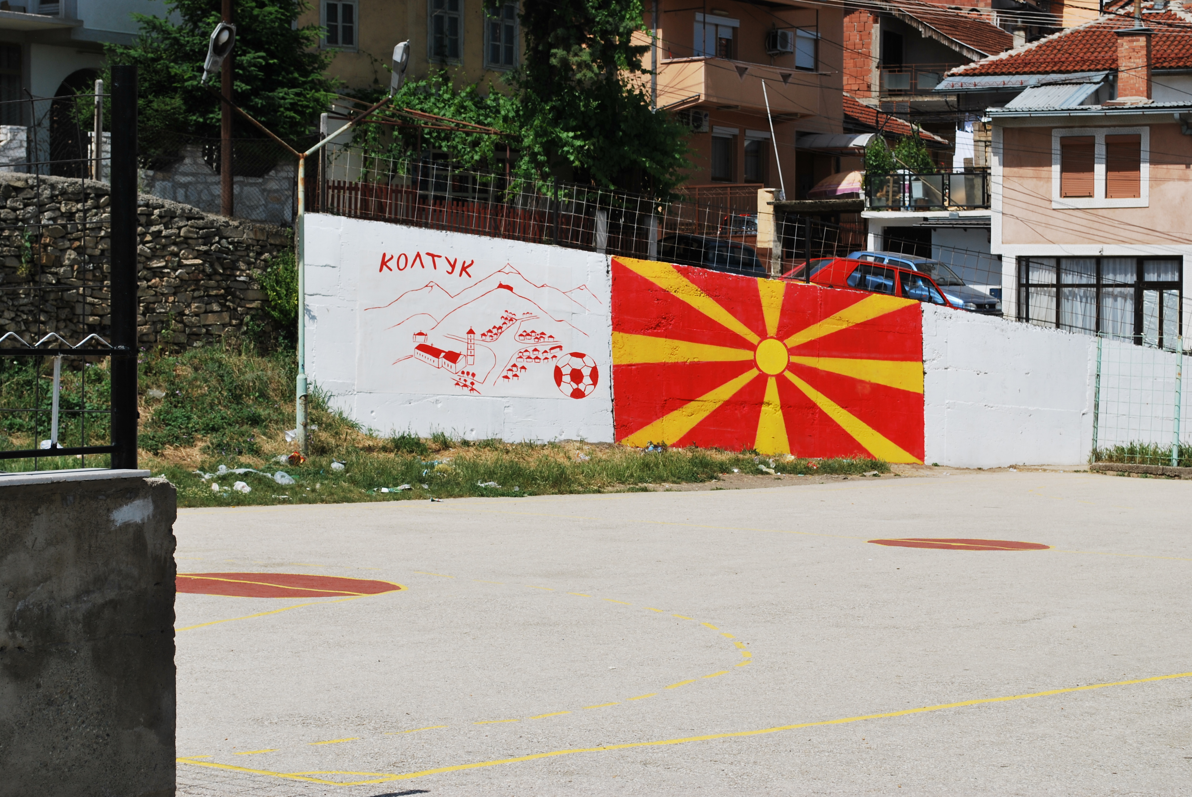 The playground in Koltuk, Tetovo, Macedonia. A view of a painting of the Macedonian flag and rough graphic representation of the neighbourhood.